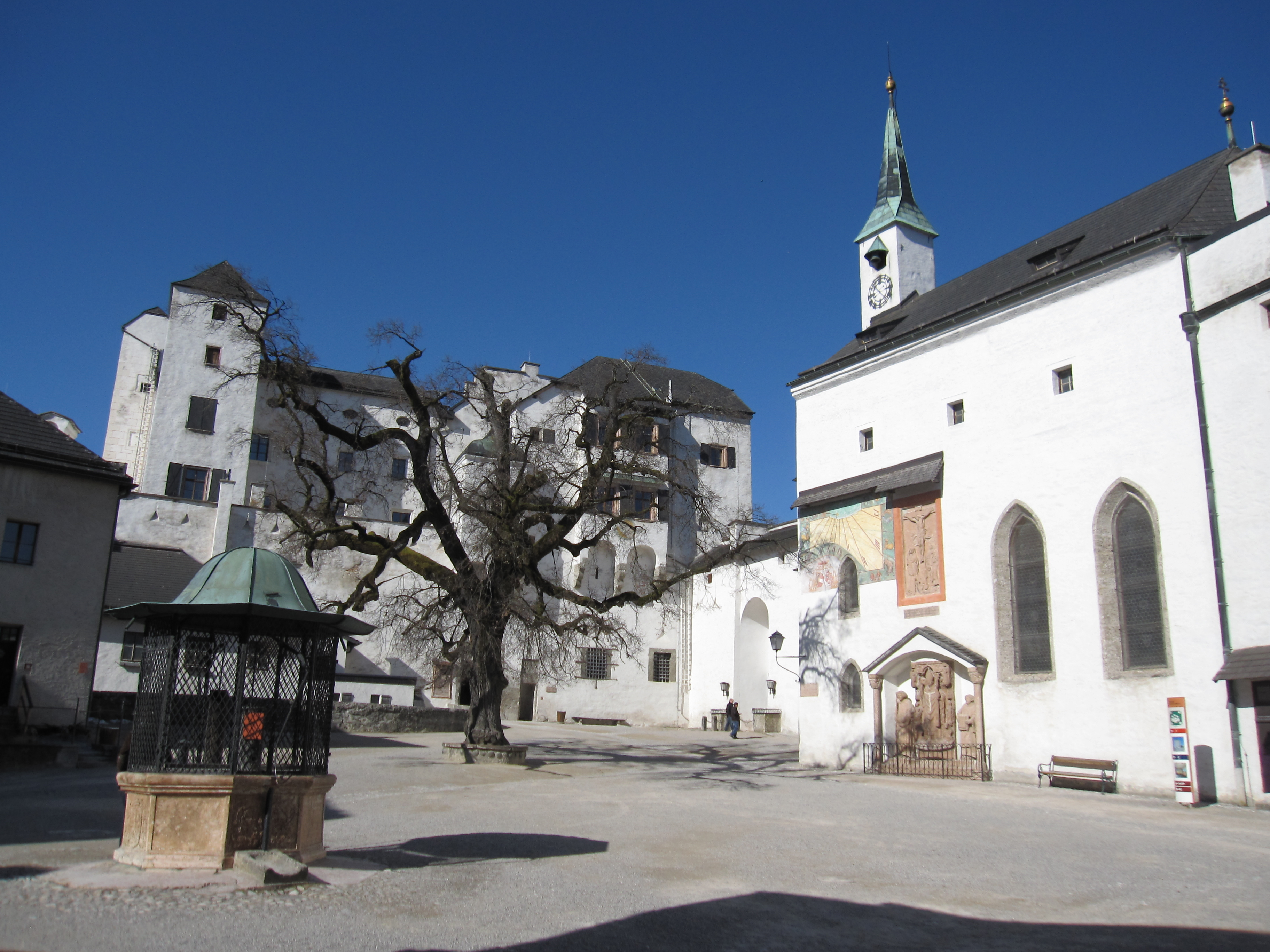 Hoher Stock and St. George's Chapel in Hohensalzburg Castle.